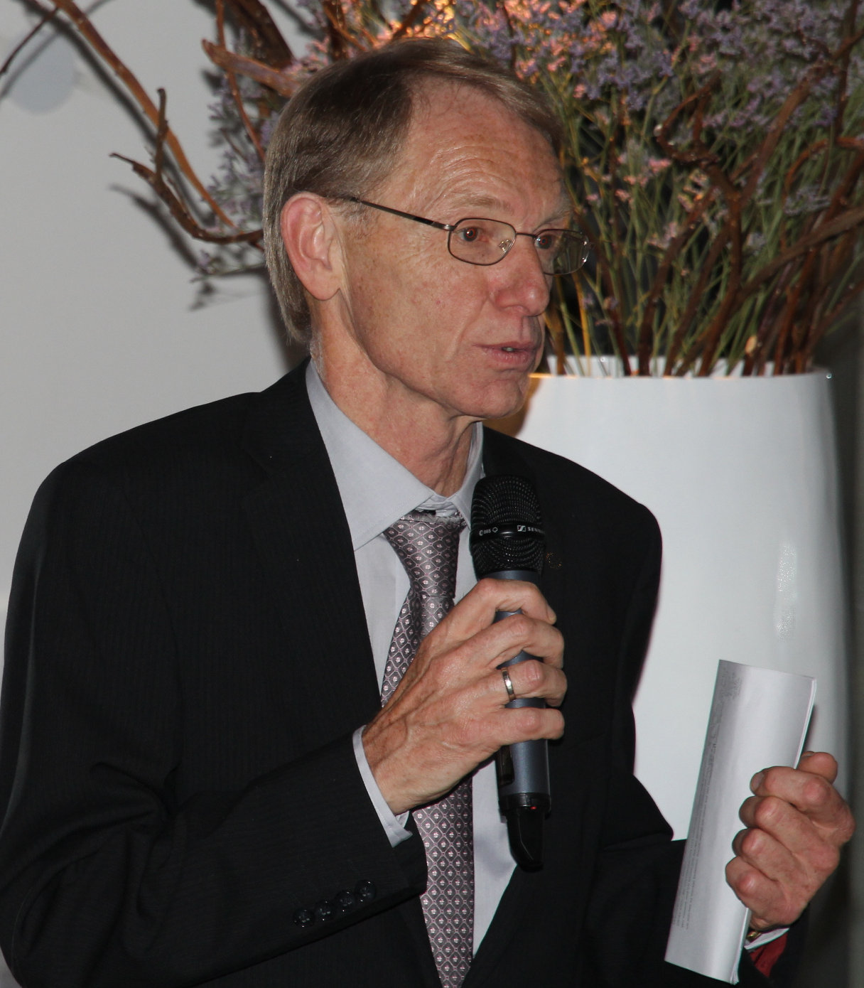 Franz Palm, Professor in Econometrics, served three terms as Dean of the Faculty of Economics and Business Administration, Maastricht University between 1986 and 2006